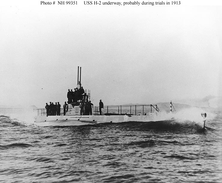 USS H-2 (SS-29)